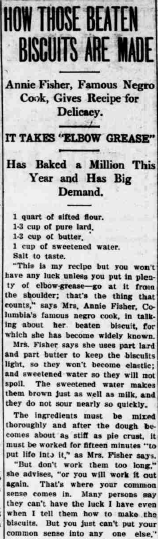 This is an article about Annie Fisher's biscuit recipe published in the University Missourian